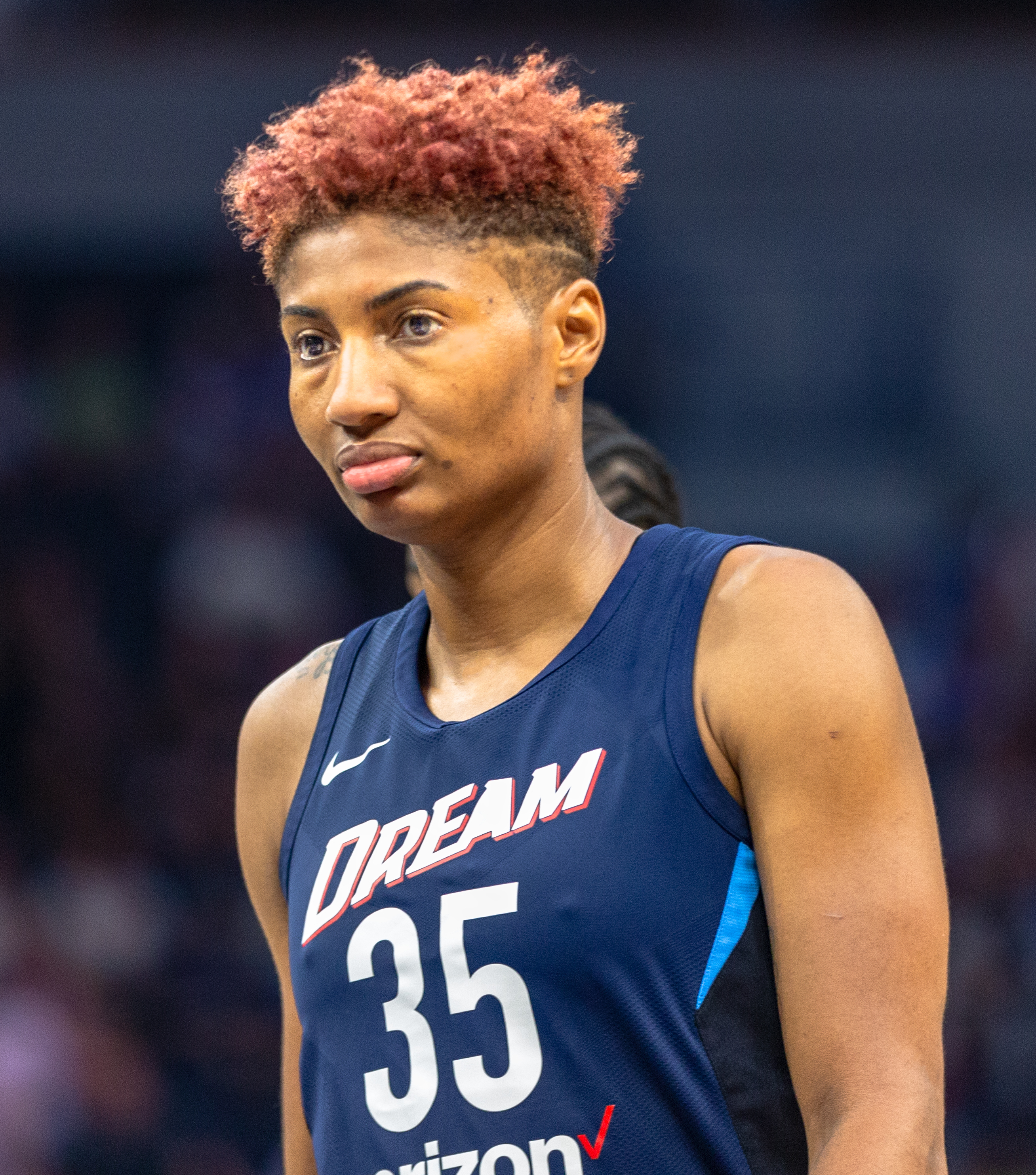 Angel McCoughtry playing in the Atlanta Dream vs Minnesota Lynx game in Minneapolis on August 5, 2018